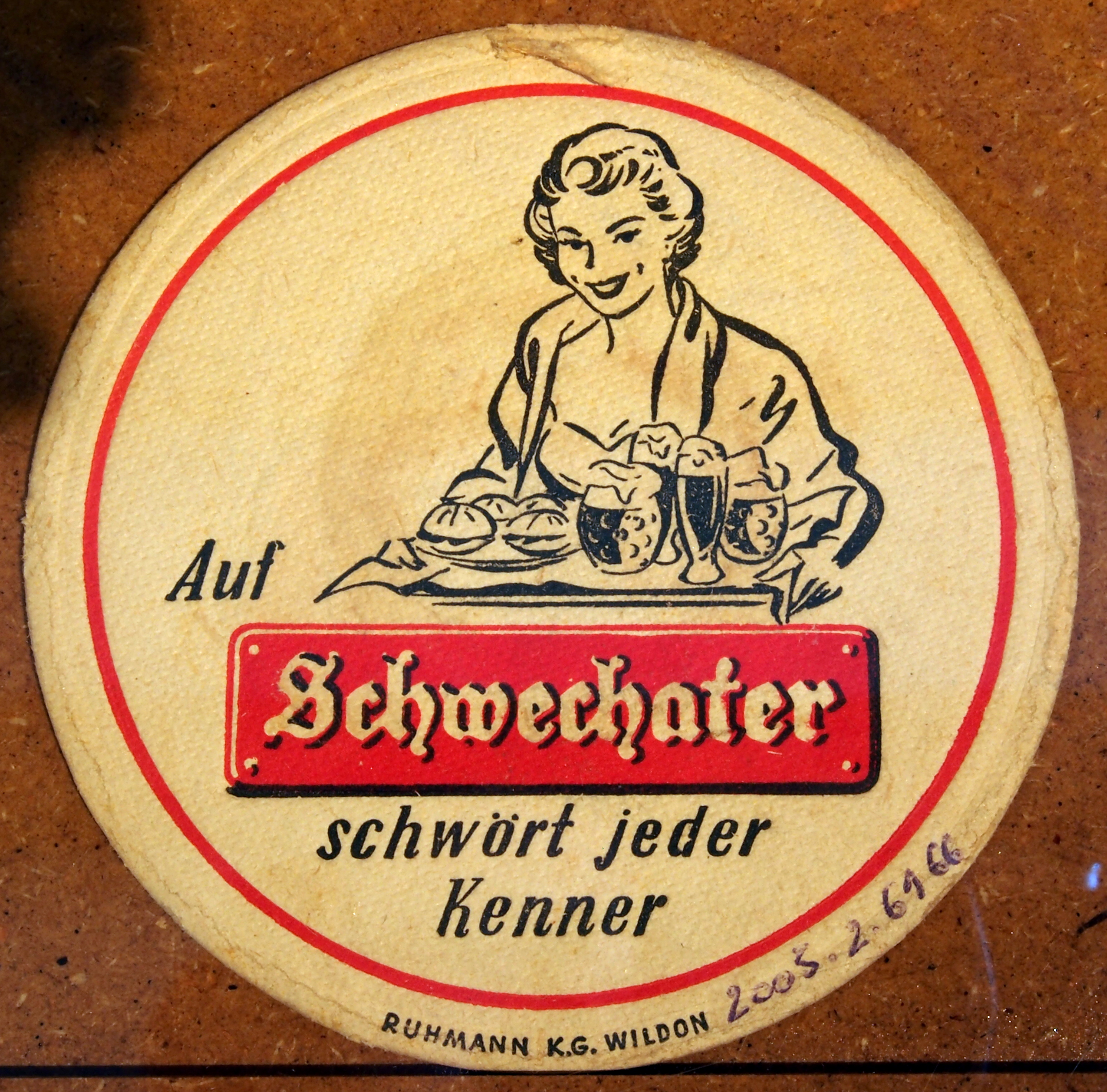 Schwechater. (Photographed through glass.)